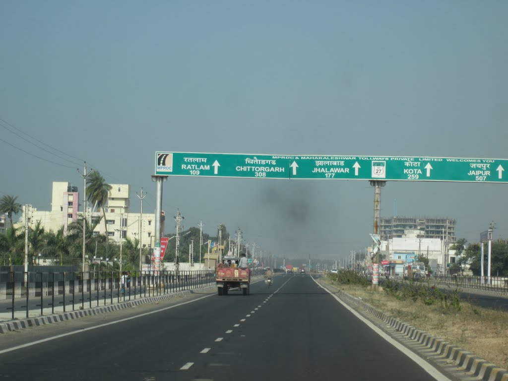 Ujjain-Indore section of SH 27